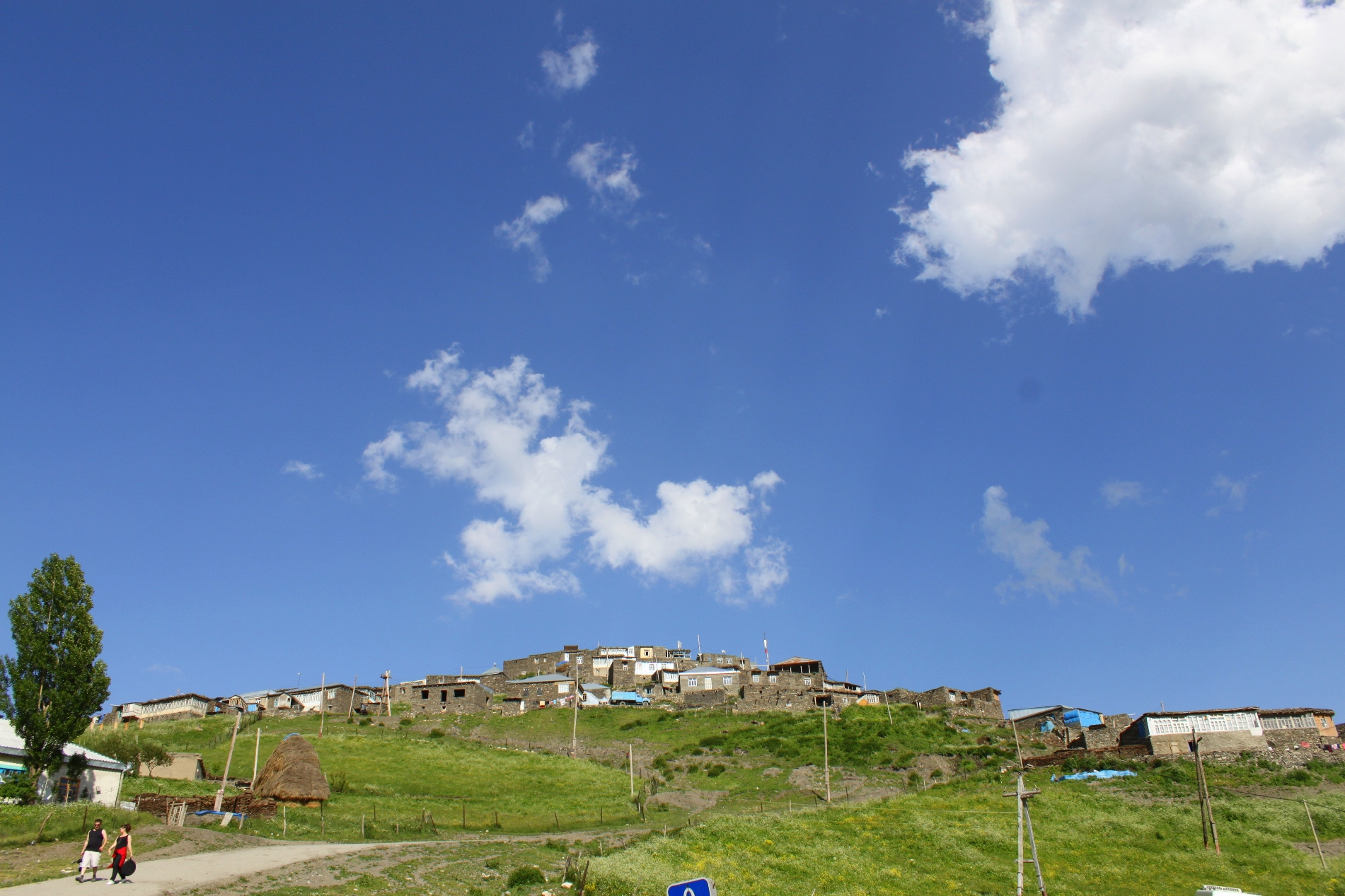 Xinaliq villige Quba, Azerbaijan.